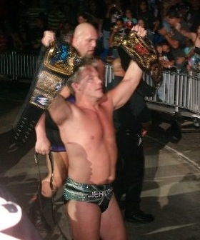 Chris Jericho at a WWE house show.